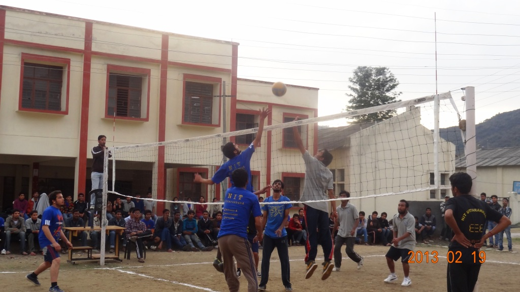 Volley Ball pics